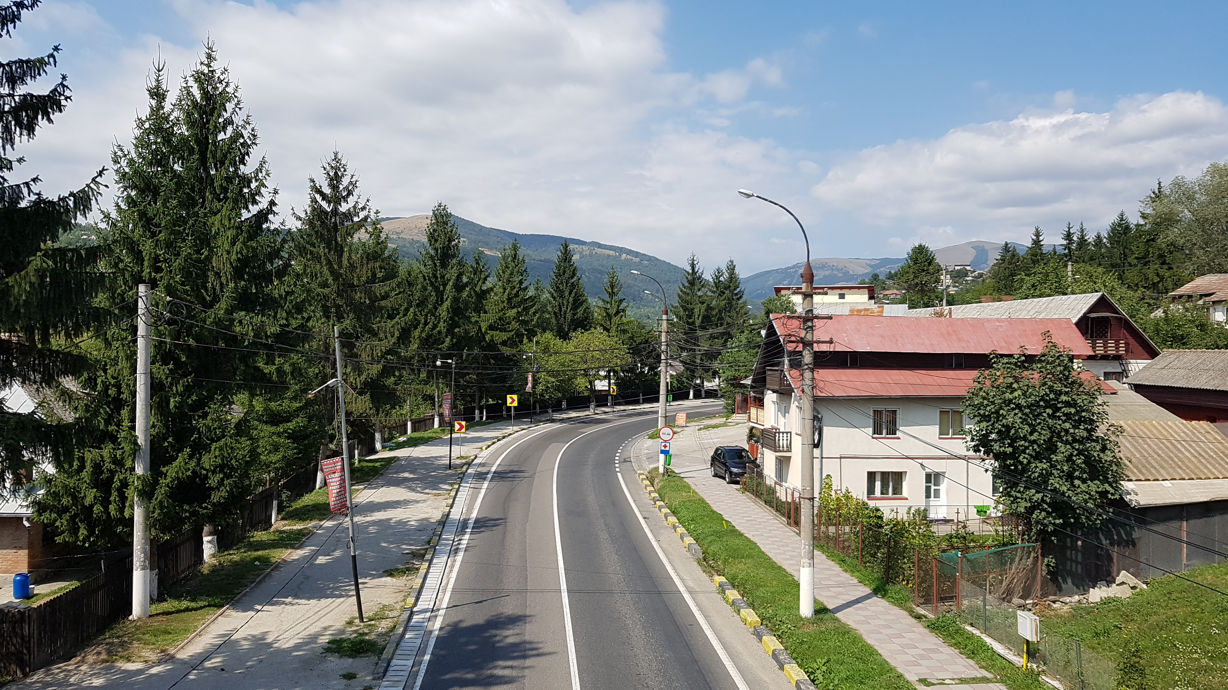 This is Comarnic City - Orasul Comarnic in the summer